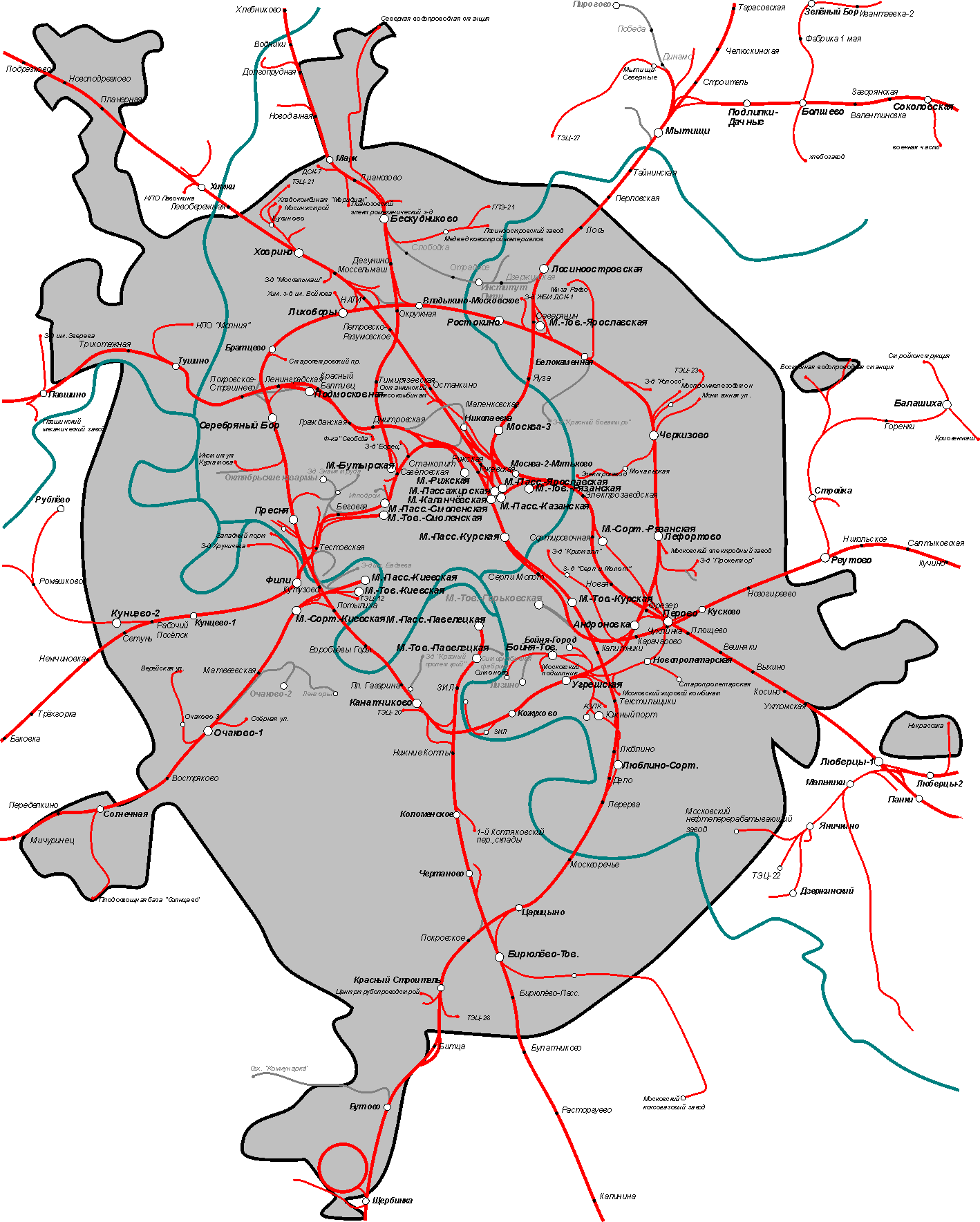 Map of railways of Moscow, Russia